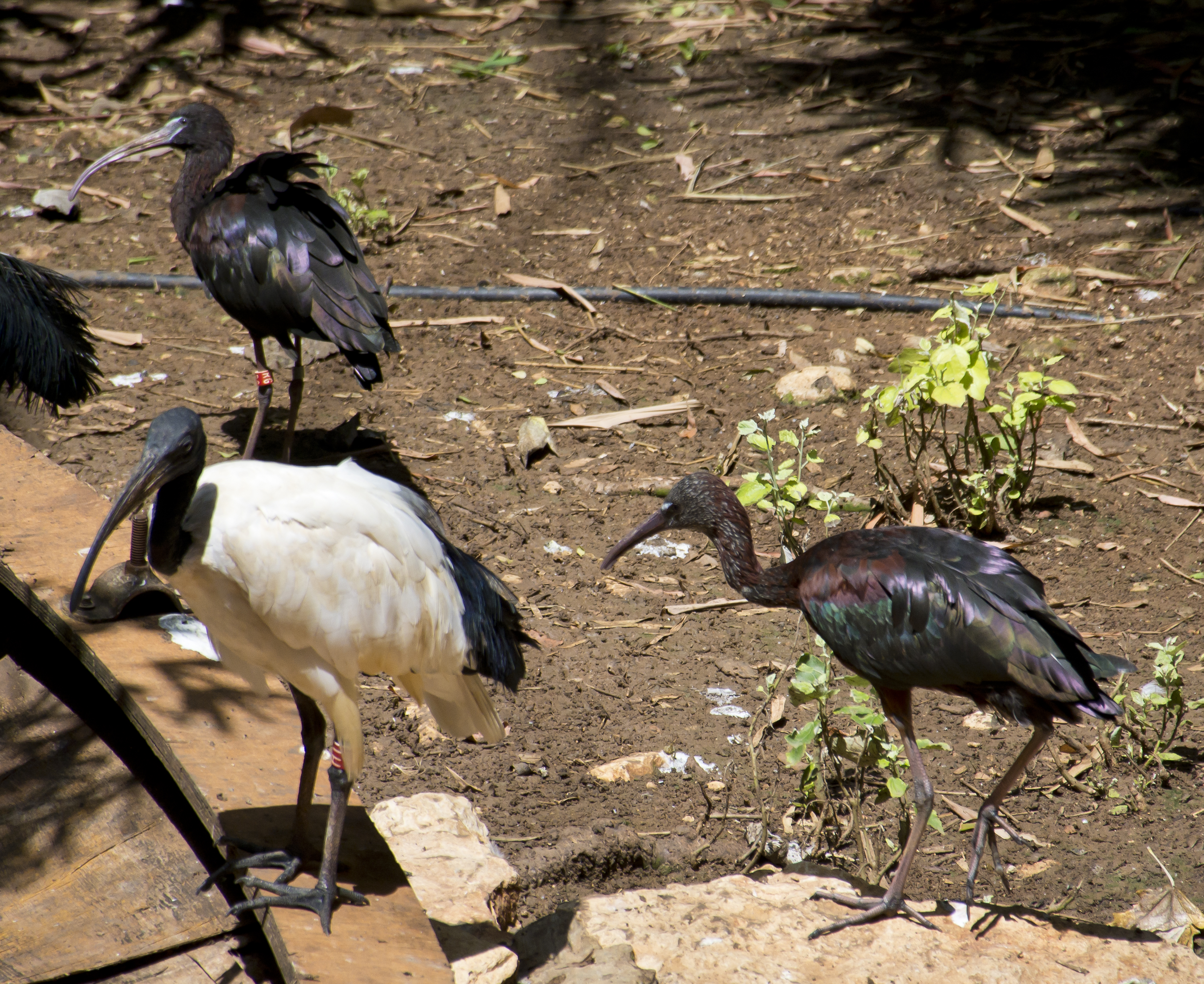 Haifa Educational Zoo, Haifa, Israel